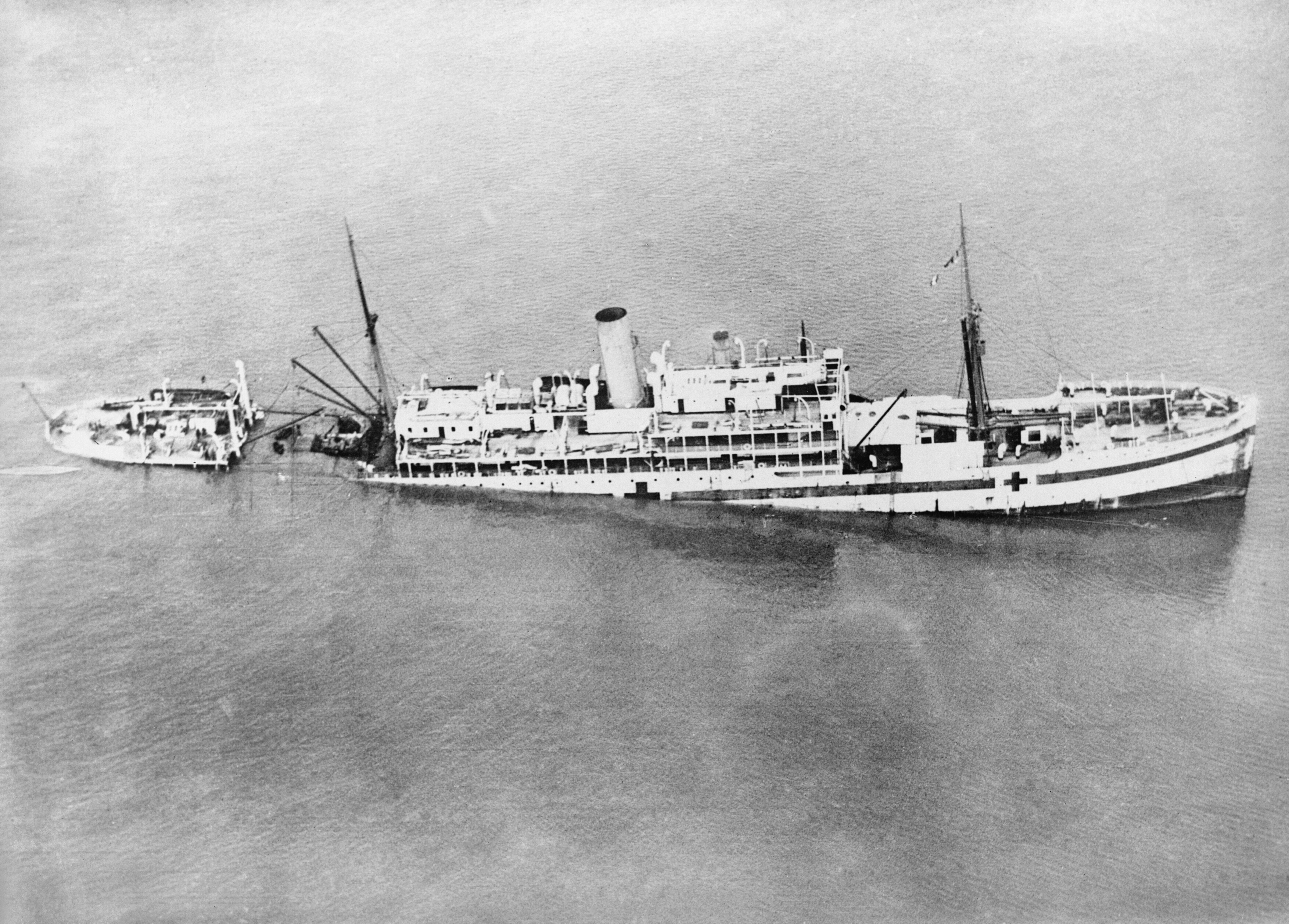 The hospital ship HMHS Gloucester Castle down by the stern after being torpedoed by the German U-boat UB-32 off the Isle of Wight, 31 March 1917. She was, however, salvaged, and returned to civilian service after the war. She was finallay sunk by the German commerce raider Michel in 1942 off Ascension Island in the South Atlantic.